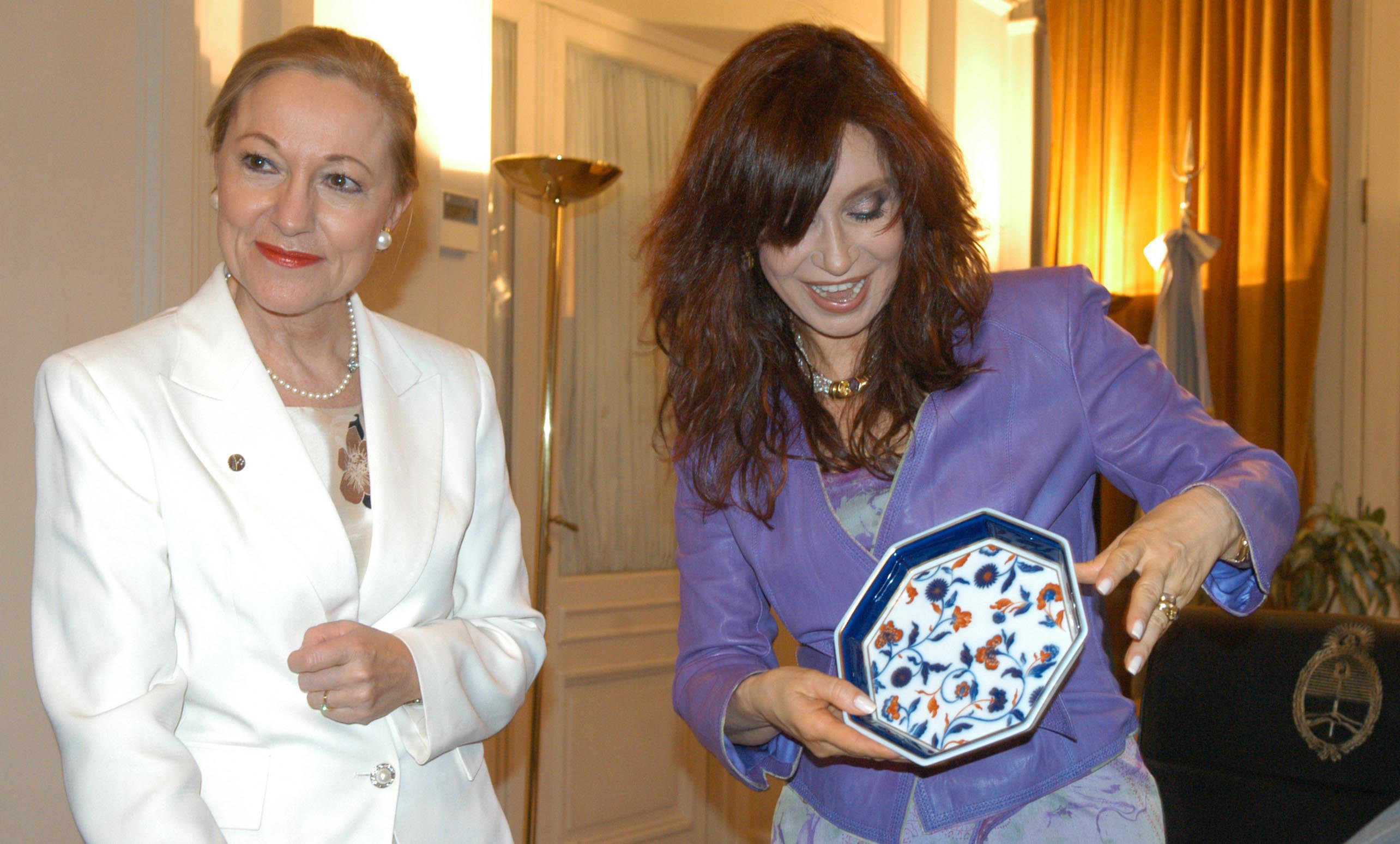 The European Commissioner for External Relations and European Neighbourhood Policy Benita Ferrero Waldner and the First Lady of Argentina Cristina Fernández de Kirchner in The Pink House.